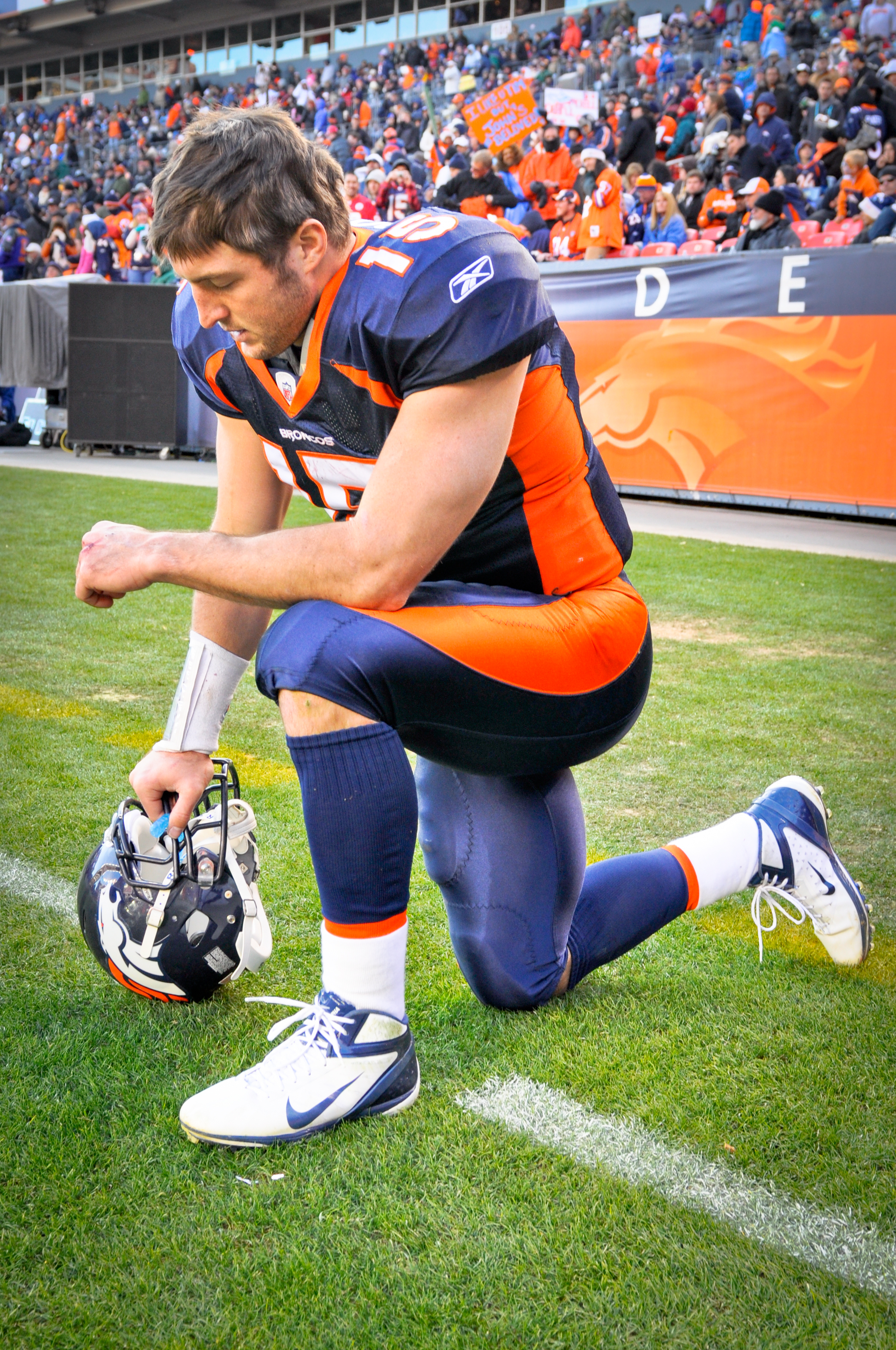 Photo of Tim Tebow “Tebowing” taken on 1-1-2012 at Sports Authority Field at Mile High (Denver Colorado). Denver Broncos vs Kansas City Chiefs Photo was taken prior to the start of the 2nd half.